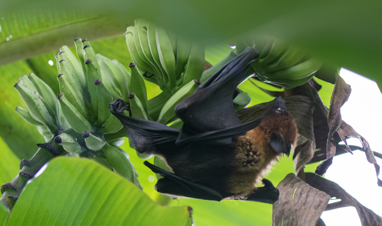 Big bat from kerala